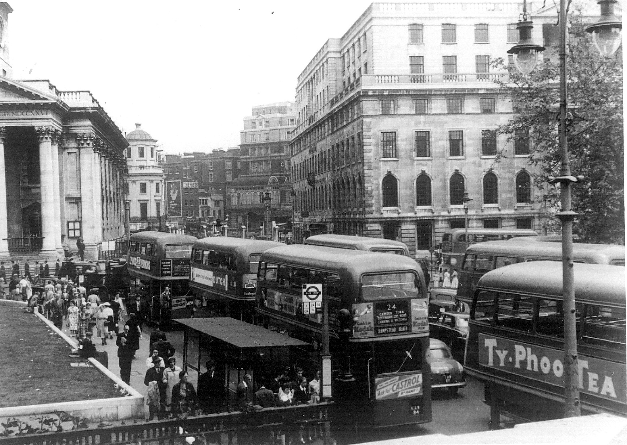 A July 1957 photograph of Trafalgar Square looking down Duncannon Street towards Charring Cross railway station with St Martin-in-the-Fields church on the left and South Africa House on the right